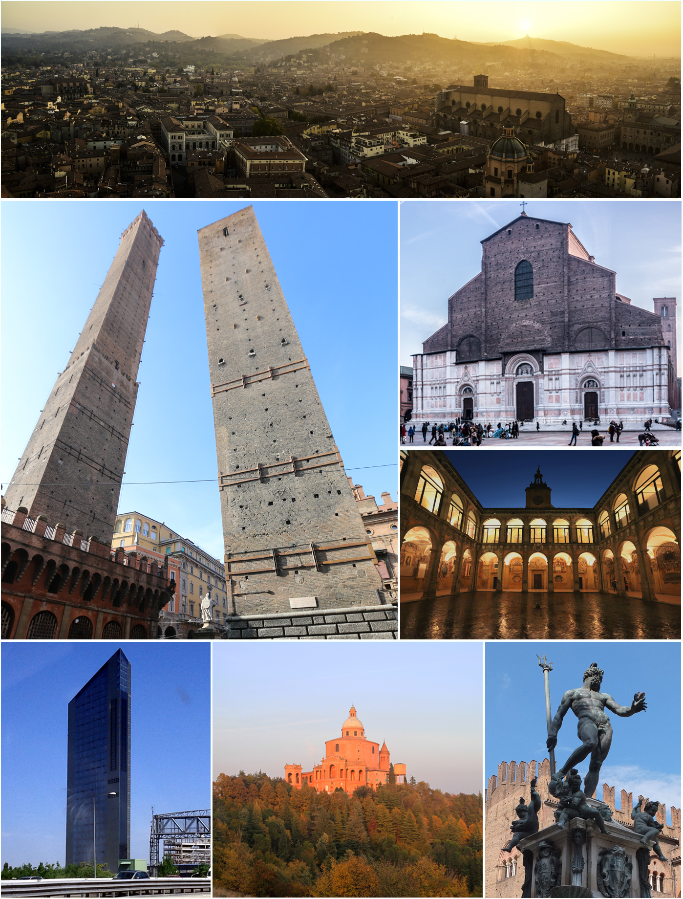 This is a montage of images already available on wiki commons.